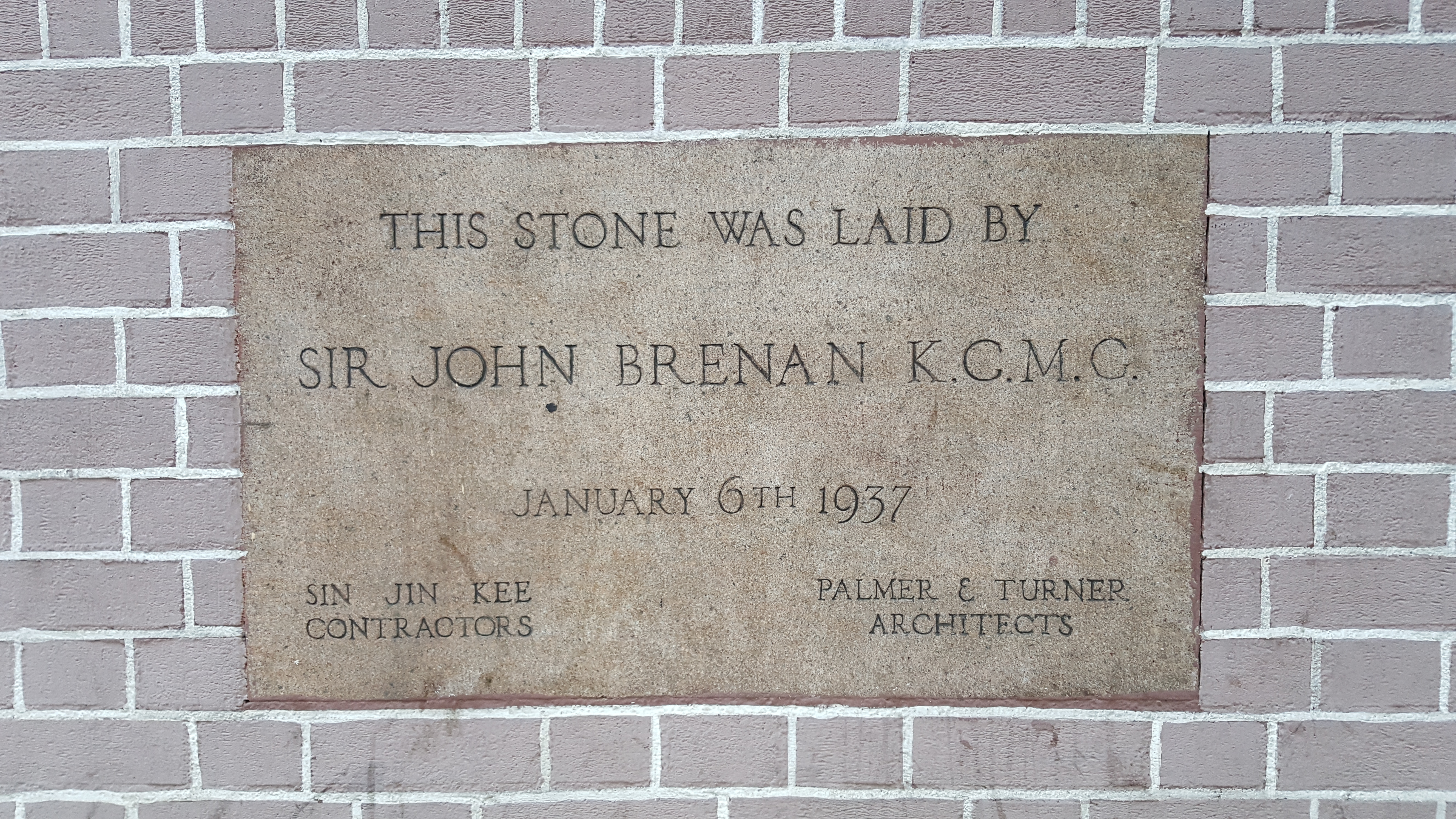 The foundation stone of the Caldbeck McGregor & Co. building in Shanghai, laid by Sir John Brenan, British Consul-General, on 6 January 1937.